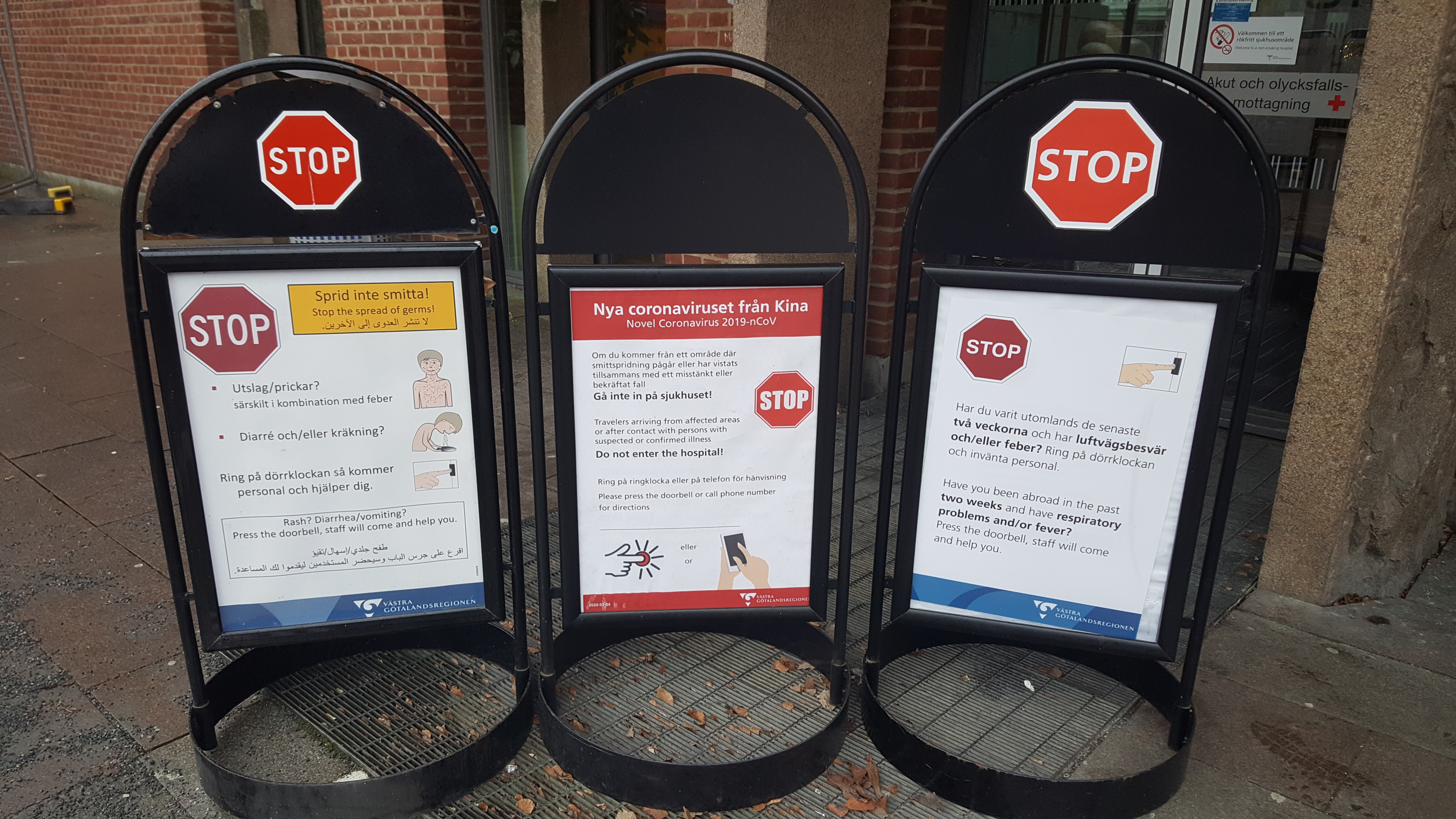 Signs at the Sahlgrenska hospital emergency reception requiring virus patients to stay outside and call for help. Taken during Corona outbreak 2020.